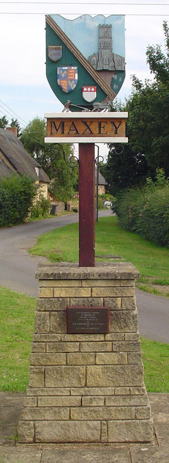 Signpost in Maxey